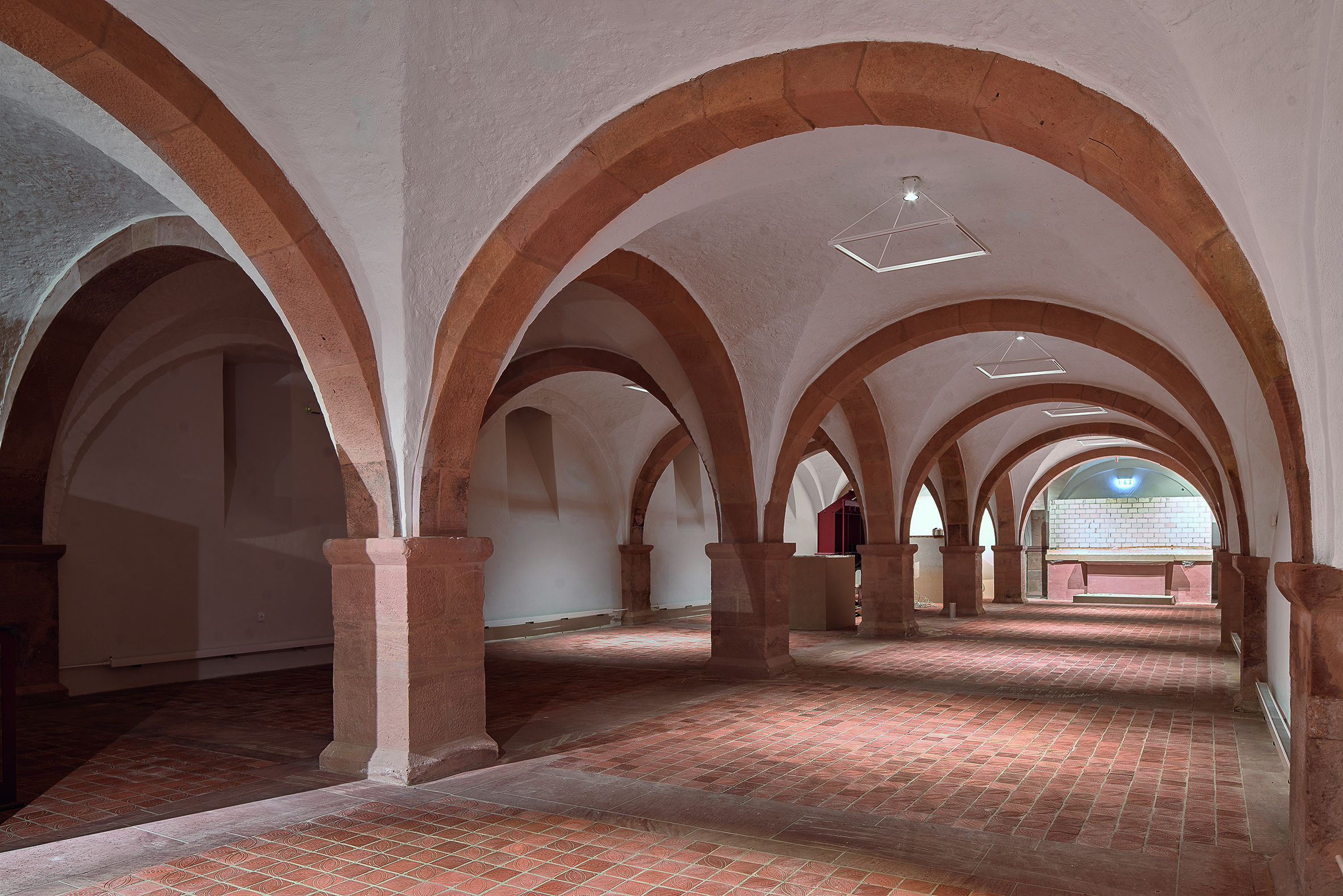 Cellar vault of the Episcopal Museum Mainz